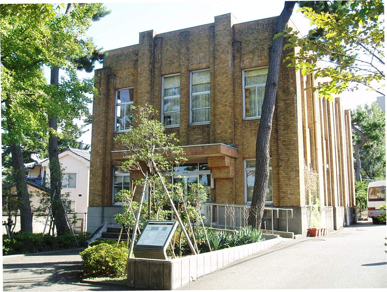 Asahimachi Museum of Niigata University, located in Chuo-ku, Niigata, Niigata, Japan. Built in 1929 as the museum of Niigata Normal School, one of the predecessors of Niigata University. A registered tangible cultural property of Japan (#15-0187).